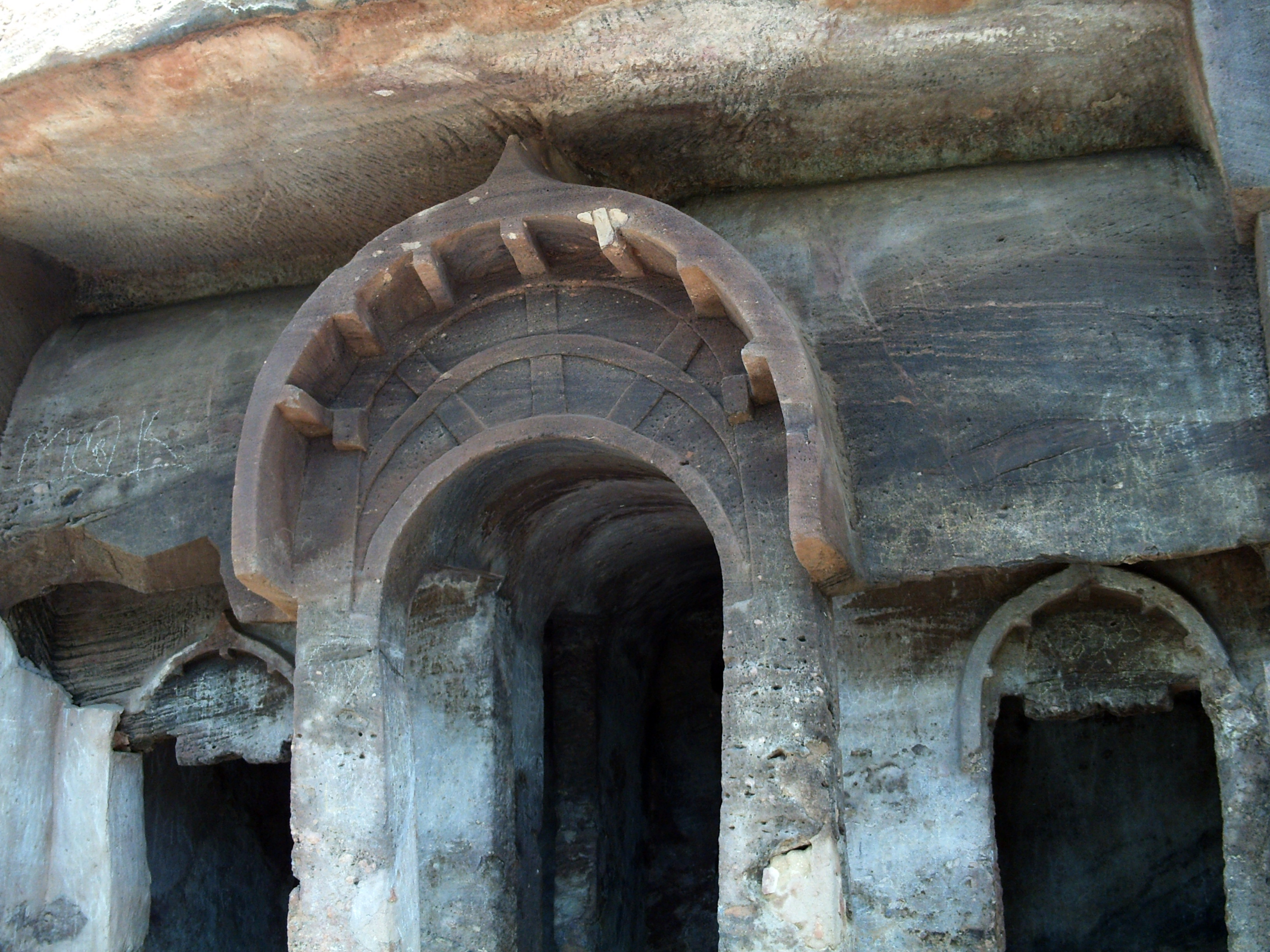 The caves of Archaeological interest on Dharmalingesvarasvami hill